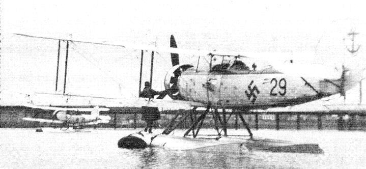 A Latvian Fairey Seal